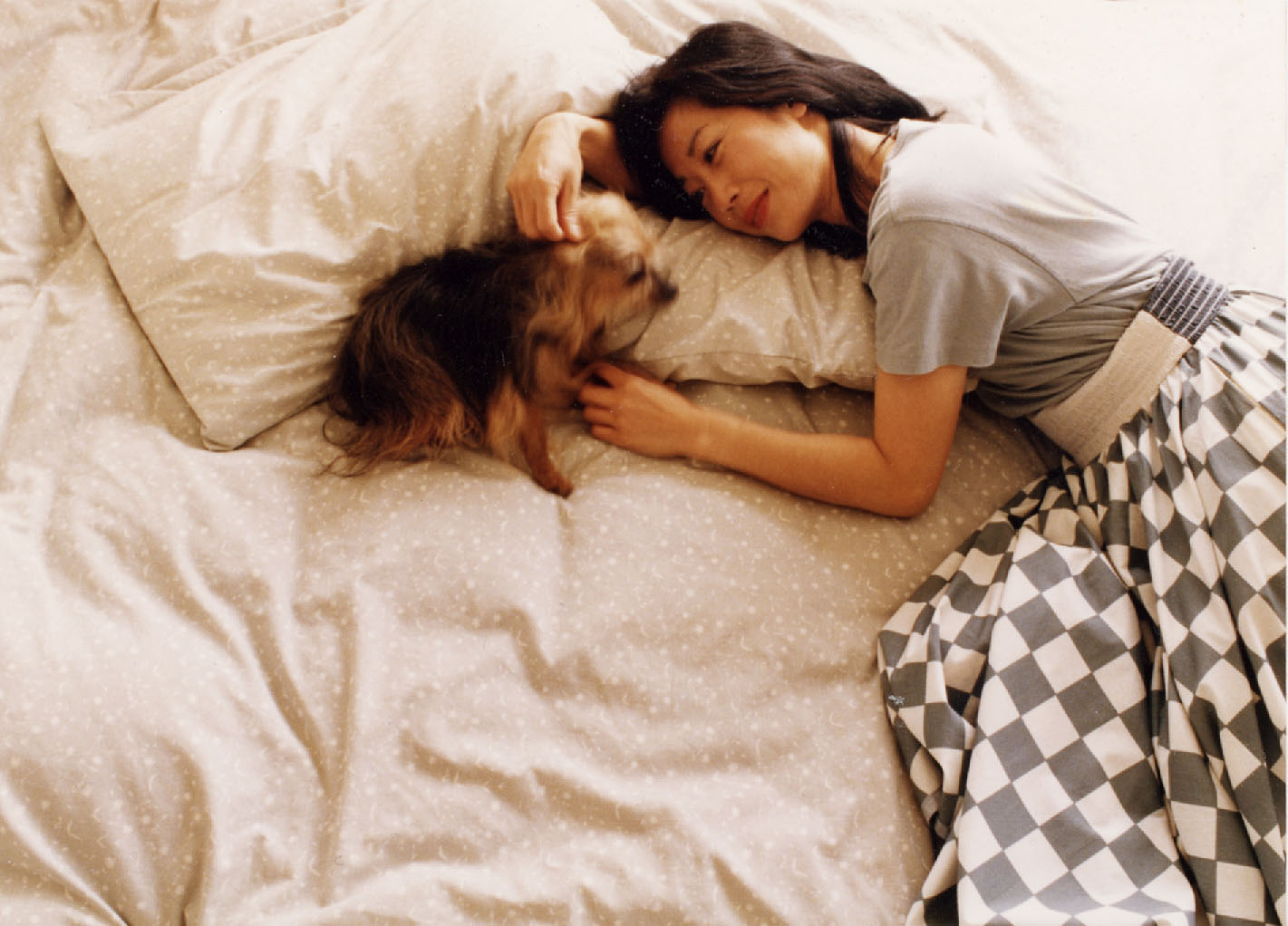 Nancy and Smokey in San Francisco, 1983